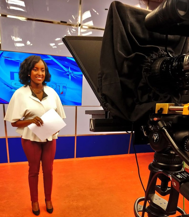 Ida Waringa reporting, from her studion in NAirobi.